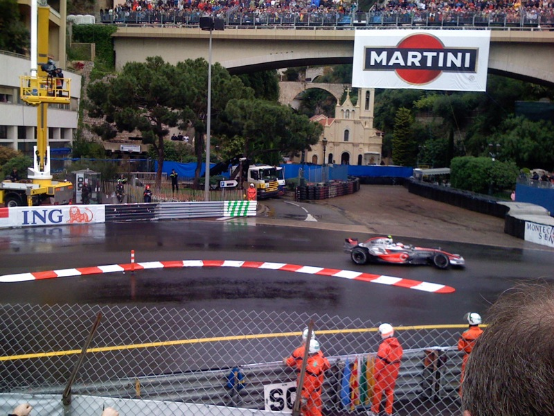 Final race, formula 1, Monaco, 2008, in the background the church Eglise Sainte-Dévote